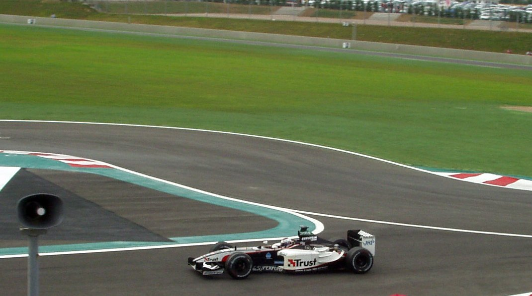 Verstappen's Minardi PS03 at the 2003 French Grand Prix